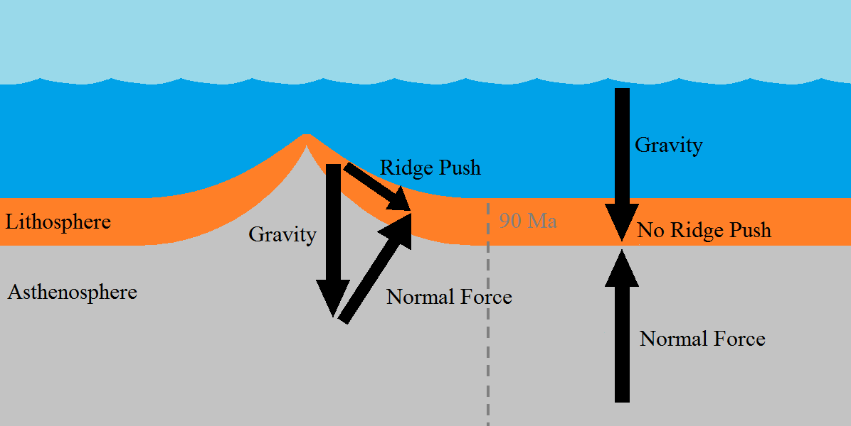 Diagram of a mid-ocean ridge with the lithosphere, asthenosphere, and primary forces contributing to ridge push labelled. Shows ridge push in young lithosphere ( 90 Ma).